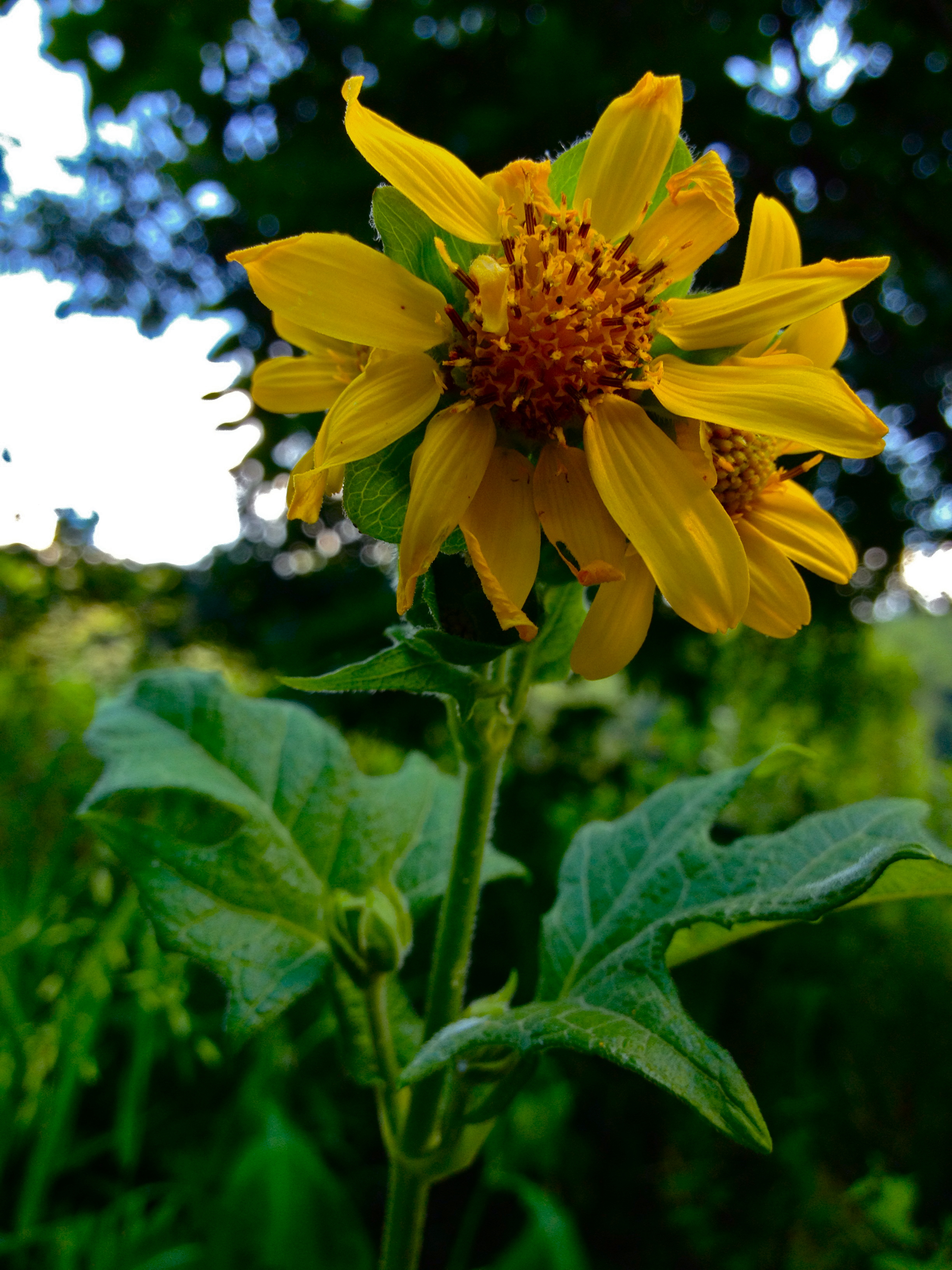 Photo of Smallanthus uvedalius in flower. This is a native plant growing wild in the C & O Canal National Historical Park, Montgomery county Maryland, USA. This species is a member of the Asteraceae family.The Flora of Virginia uses the specific name "uvedalius," which is also accepted by Kartesz (2011) and USDA Plants. However, Code of Nomenclature rules governing the use of epithets as nouns in apposition (rather than as adjectives) dictate that Smallanthus uvedalia (basionym: Osteospermum uvedalia L.) is correct (A.S. Weakley, pers. comm.). This is accepted by FNA, Tropicos, IPNI, and ITIS.